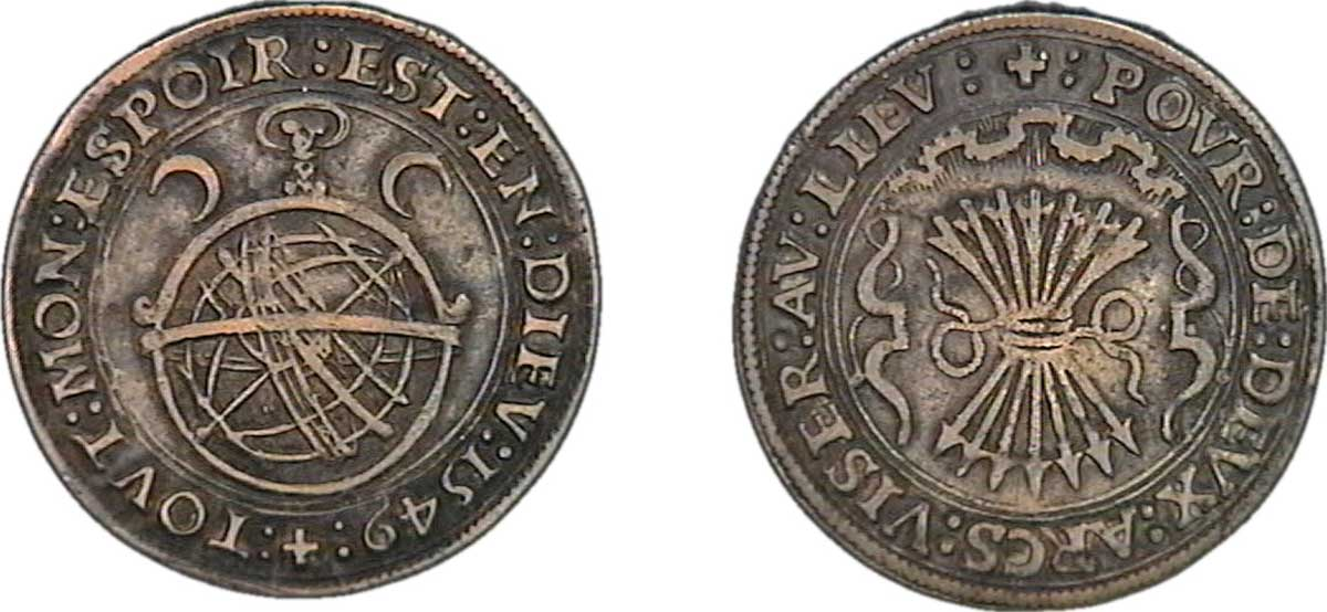 Corporation des archers; 1549